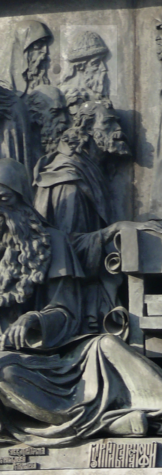 Jonah of Moscow on the Monument "Millennuim of Russia" in Veliky Novgorod